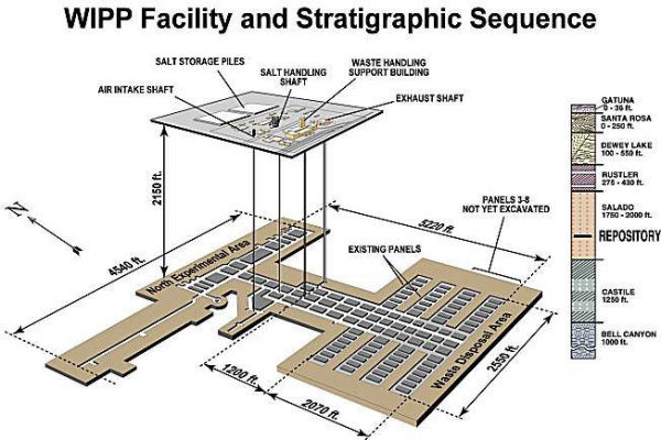 This image was obtained from on Sept 9th, 2006. The site attributes the image to the US Department of Energy.